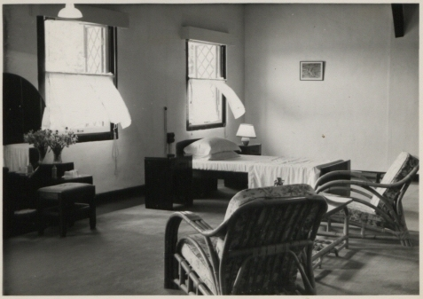 The Governor's bedroom, Astana Sarawak in 1959